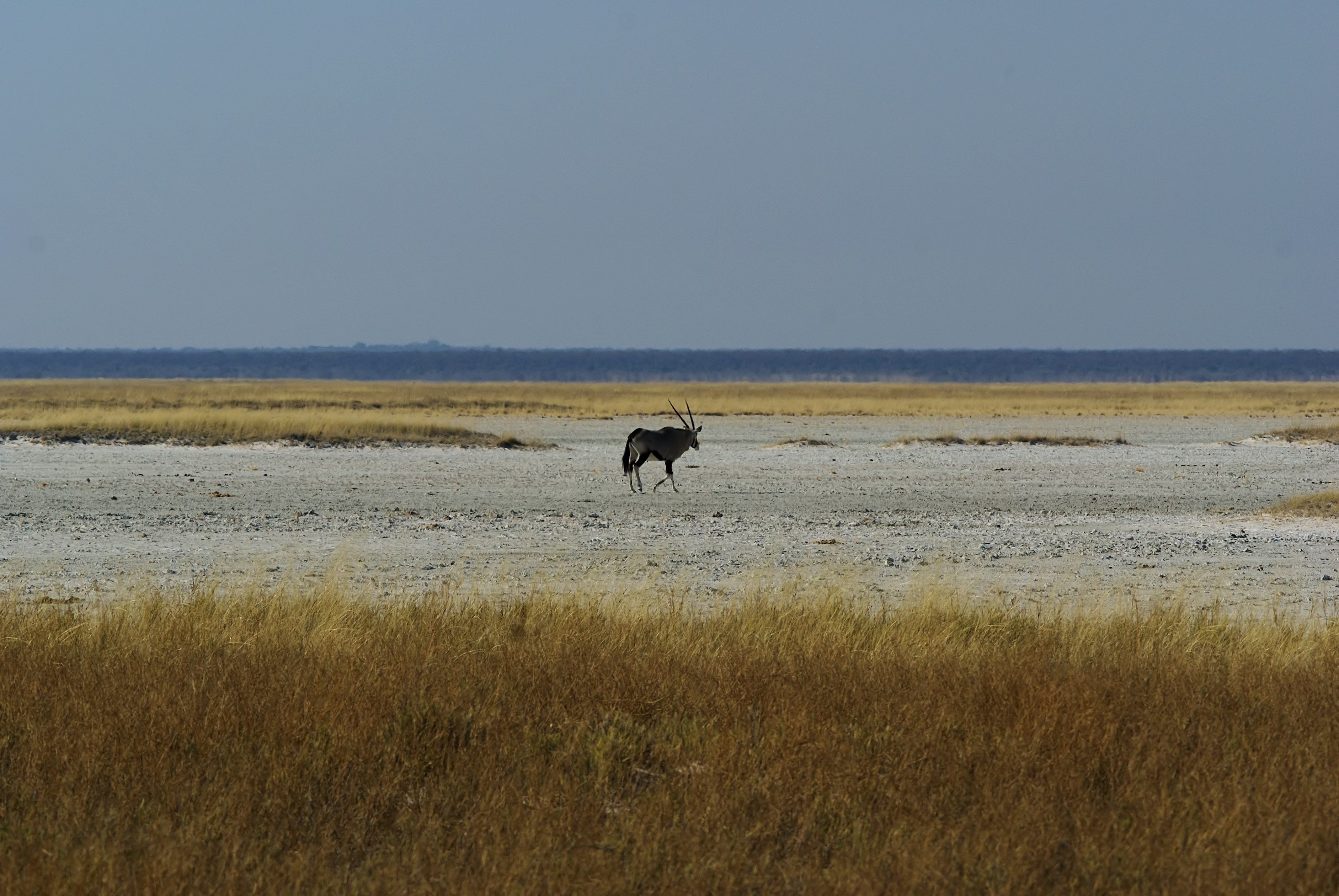 A Gemsbok or Southern oryx on Fisher's Pan in eastern Etosha National Park, Namibia